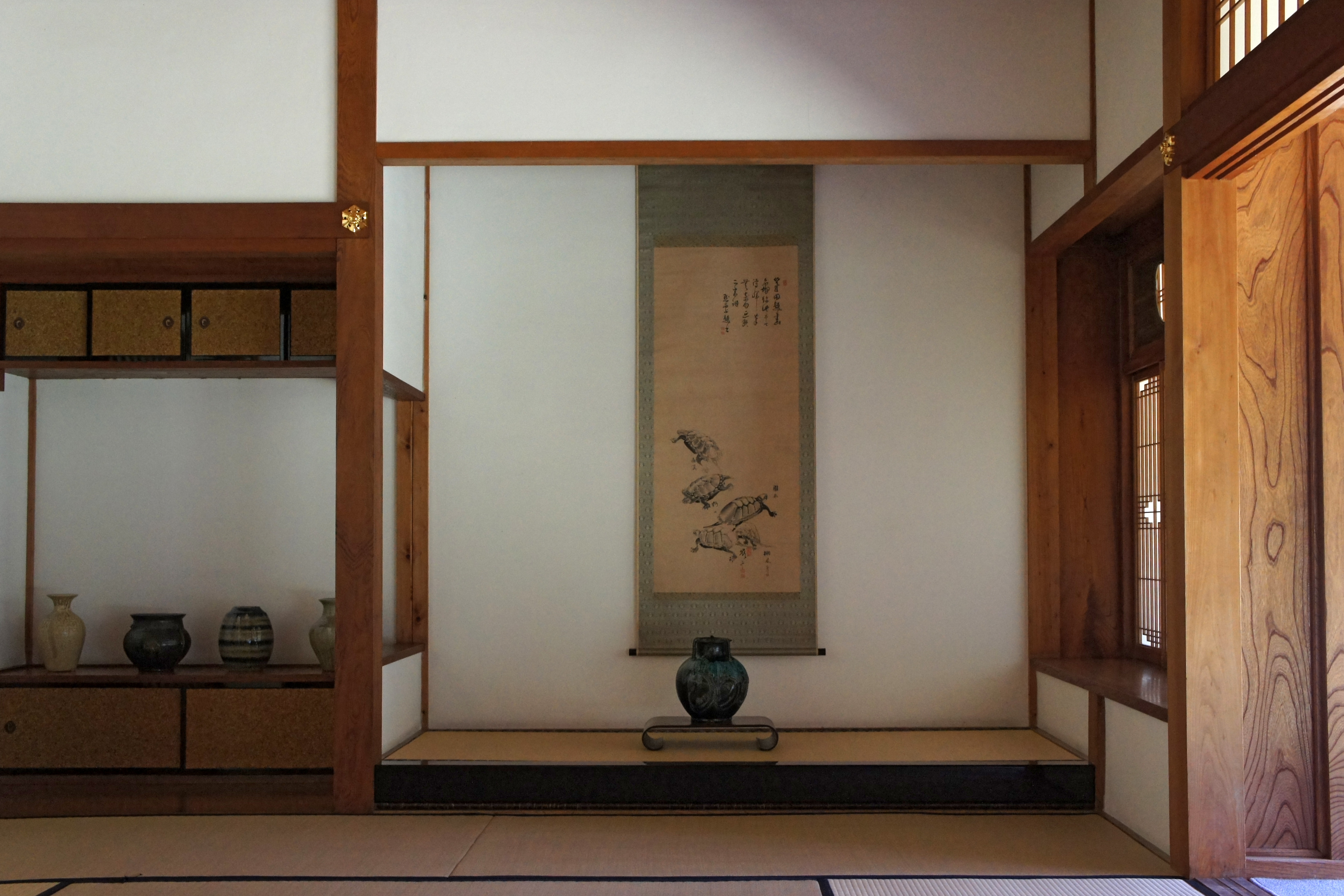 Kannon-in in Tottori, Tottori prefecture, Japan.